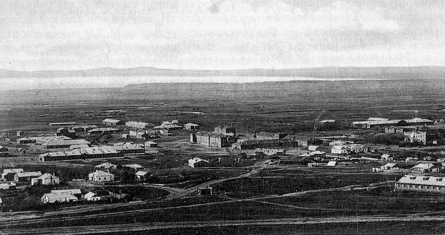 Post Novokievsky in Ussury Region, Russia